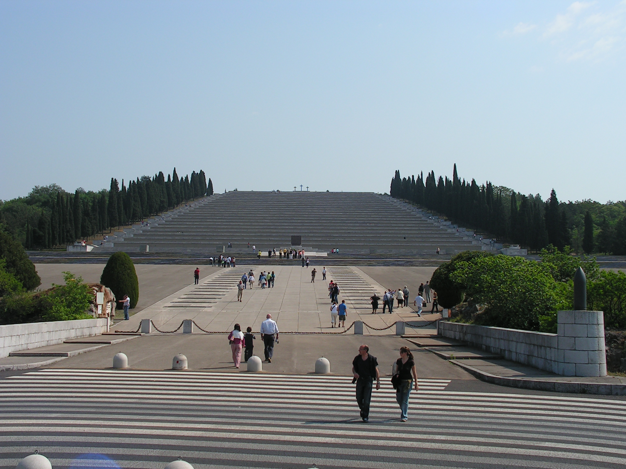 The Military Cemetery of Redipuglia